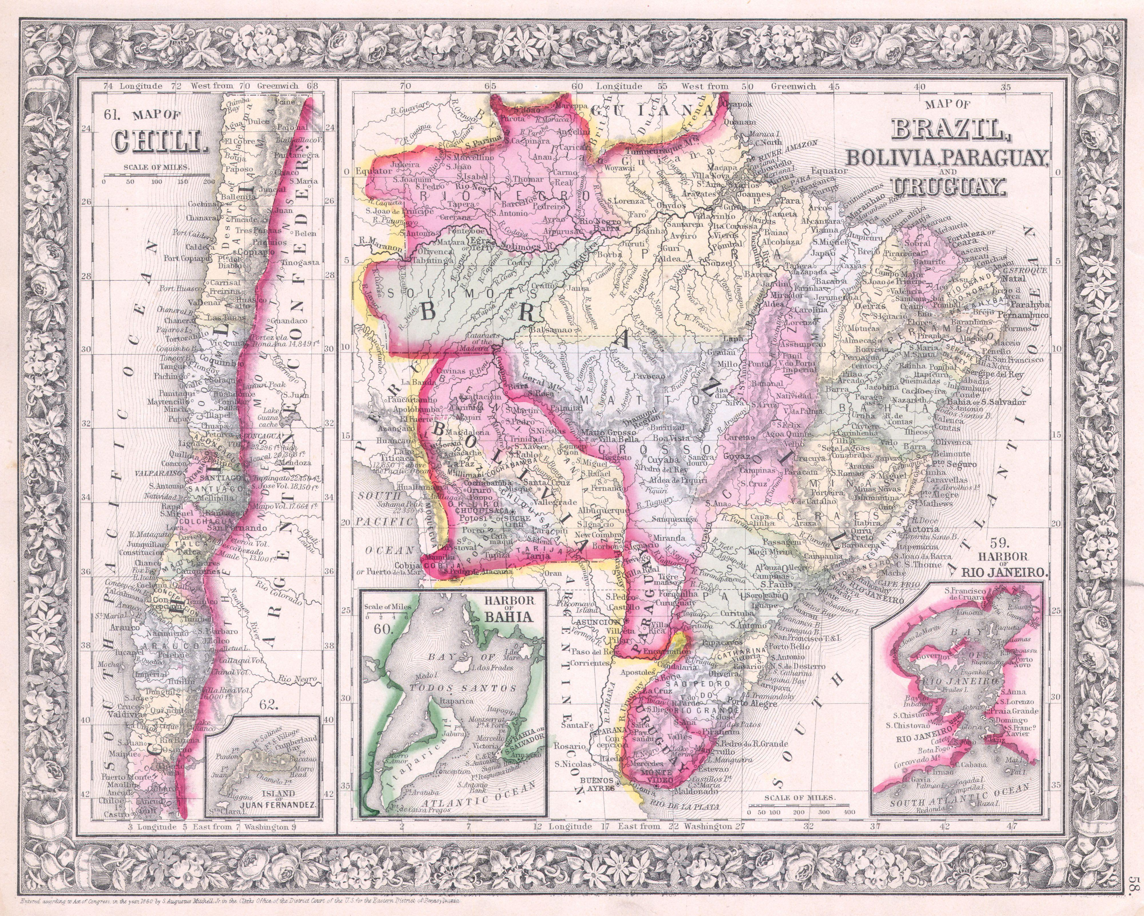 A beautiful example of S. A. Mitchell Jr.’s 1864 two map sheet depicting parts of South America. The left hand map depicts Chili with an inset of the Island of Juan Fernandez. The right hand maps shows Brazil, Bolivia, Paraguay and Uruguay with insets of the Harbor of Bahia and the Harbor of Rio de Janeiro. One of the most attractive American atlas maps of this region to appear in the mid 19th century. Features the floral border typical of Mitchell maps from the 1860-65 period. Prepared by S. A. Mitchell for inclusion as plate no. 58 in the 1864 issue of Mitchell’s New General Atlas . Dated and copyrighted, “Entered according to Act of Congress in the Year 1860 by S. Augustus Mitchell in the Clerk’s Office of the District Court of the U.S. for the Eastern District of Pennsylvania.